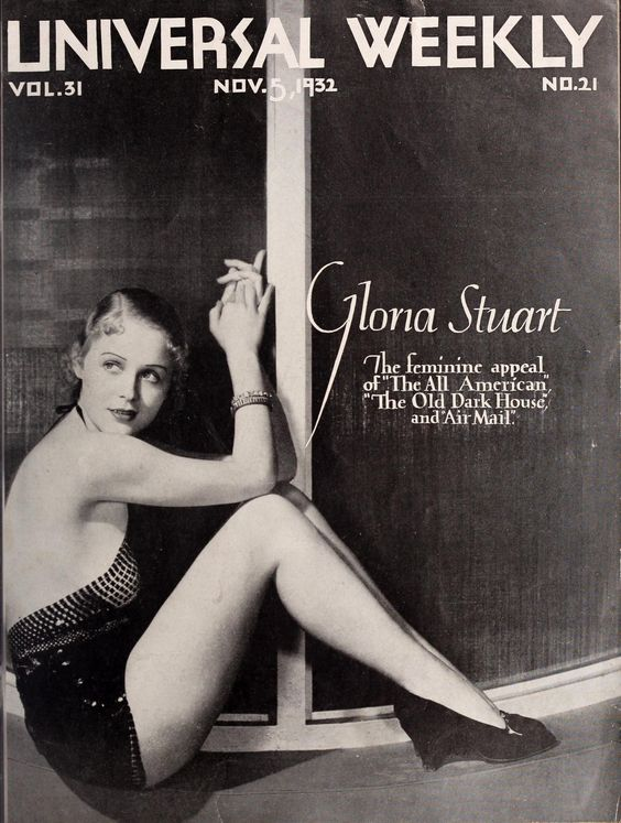 Gloria Stuart (1932) in Universal Weekly